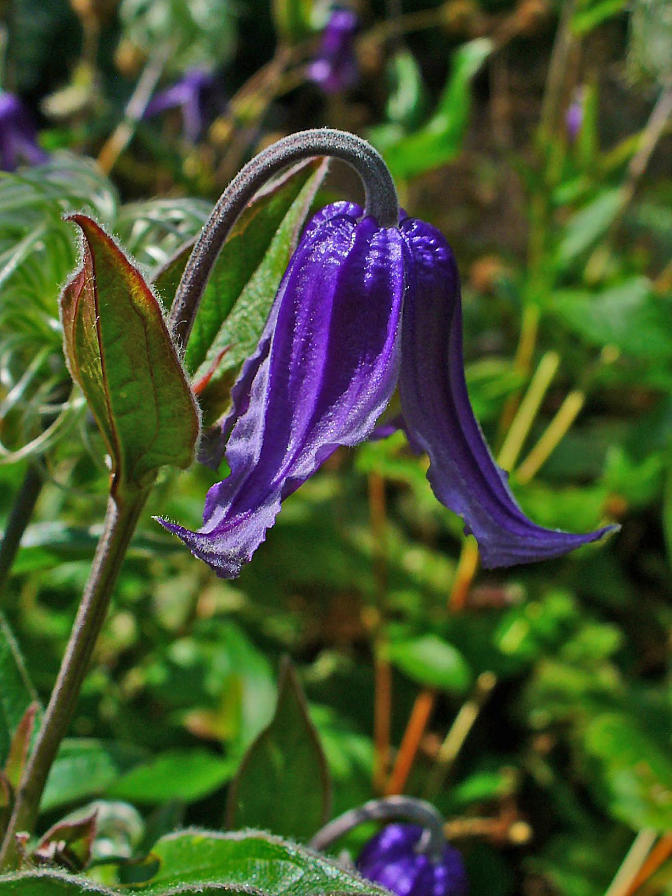 Clematis integrifolia, Ranunculaceae, Solitary Blue Clematis, flower; Botanical Garden KIT, Karlsruhe, Germany.